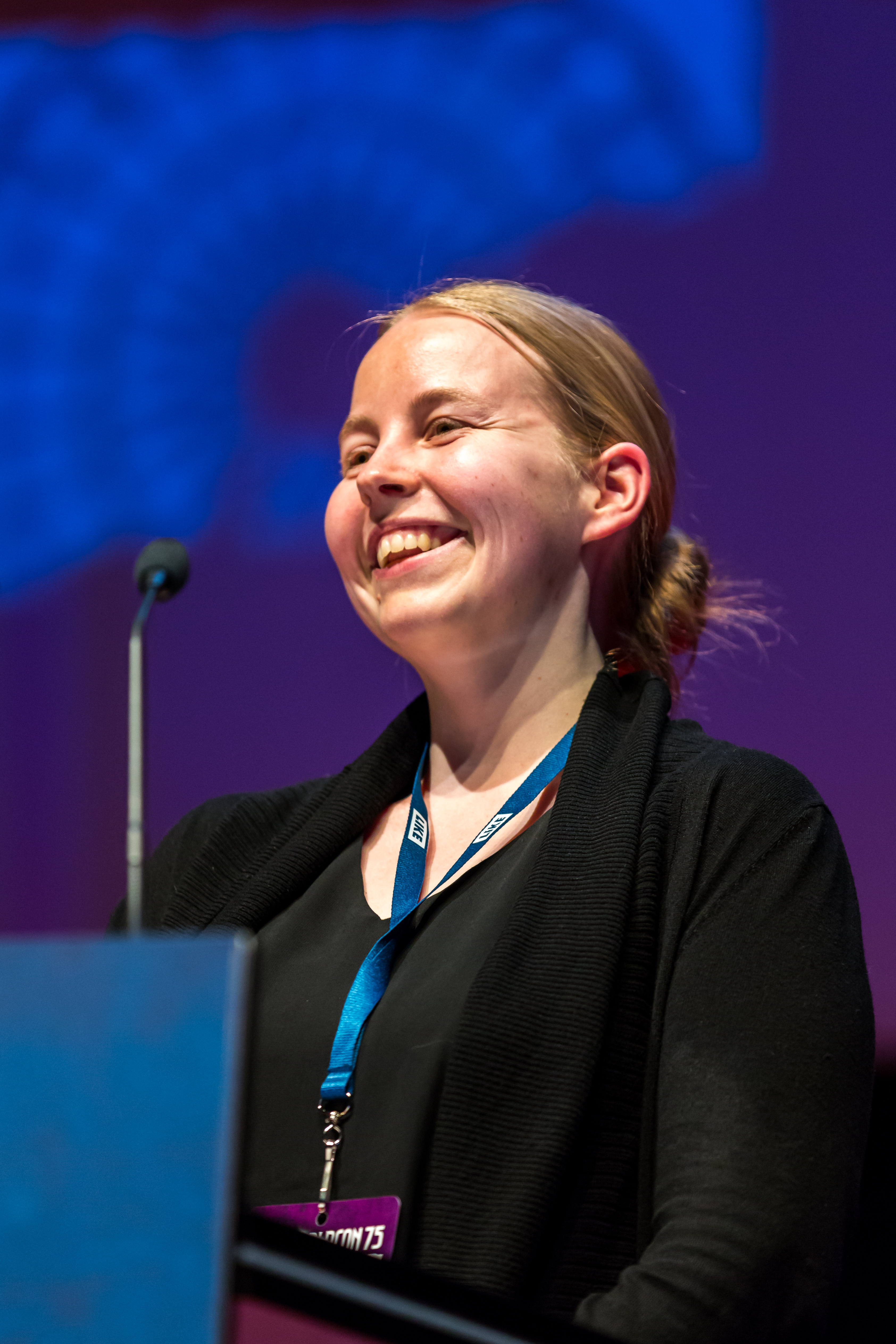 Maiju Ihalainen, Winner of the Atorox Award 2017, at the Hugo Awards Ceremony 2017 at Worldcon in Helsinki.